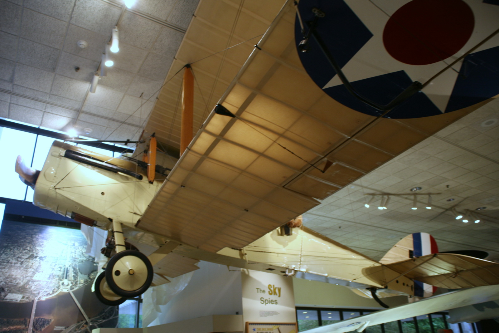 The de Havilland DH-4 in the NASM collection was the first American-built version of Geoffrey de Havilland's famous British World War I bomber. Although the museum's specimen did not see action during the war, it was a test aircraft for what was to become America's first bomber and the only American-built aircraft to serve with the U.S. Army Air Service in the First World War. When the United States entered the conflict on April 6, 1917, the Aviation Section of the Signal Corps did not possess any combat-worthy aircraft. So that a viable air arm could be created in the shortest possible time, a commission was established under the direction of Colonel R.C. Bolling to study current Allied aircraft designs being used at the front and to arrange for their manufacture in America. Several European aircraft were considered, including the French Spad XIII, the Italian Caproni bomber, and the British SE-5, Bristol Fighter, and DH-4. The DH-4 was selected because of its comparatively simple construction and its apparent adaptability to mass production. It was also well-suited to the new American 400-horsepower Liberty V-12 engine. Still, considerable engineering changes from the original British design were required to apply U.S. mass production